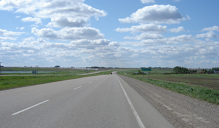 Saskatchewan Highway 11, Louis Riel Trail travelling south from Saskatoon to Regina Road Information Sign - Pool Inland Terminal